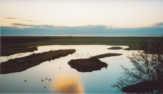 WWT Caerlaverock. View from lookout tower over one of the Lochans at this Wetland and Wildfowl Trust reserve on the Solway. In the distance can be seen one of the hides mentioned on OS Map at GR:NY055652 and beyond the Firth itself which is one of the most important areas for Wintering Wildfowl in Britain.